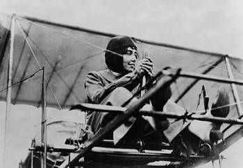 Aviator Hélène Dutrieu seated in her airplane.